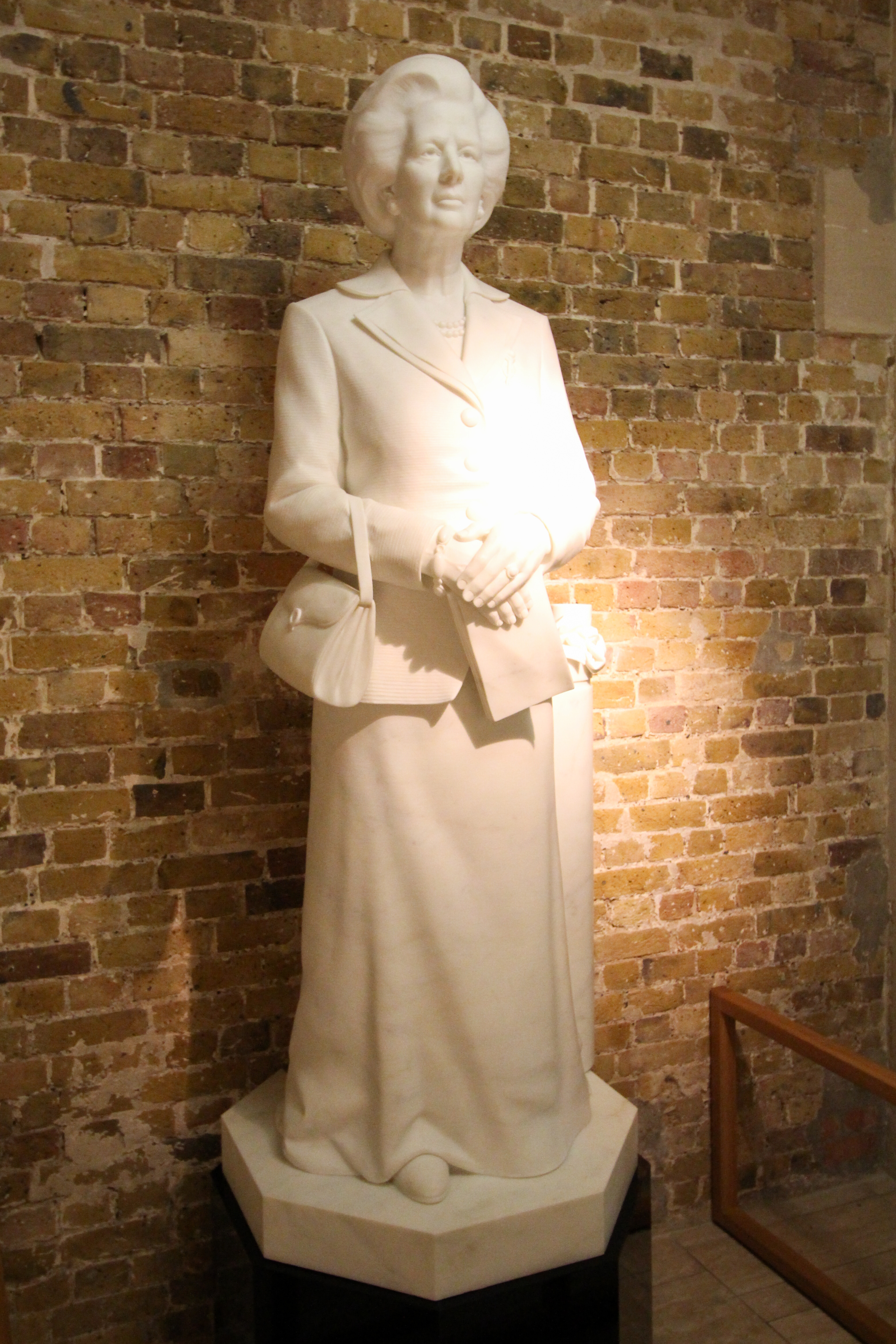 Marble statue of Margaret Thatcher, commissioned in 1998 and funded by anonymous donor. Originally intended for the House of Commons, but now located in the Guildhall. Was famously decapitated, but obviously they have fixed it since. Guildhall|, City of London. Open House Weekend 2015.